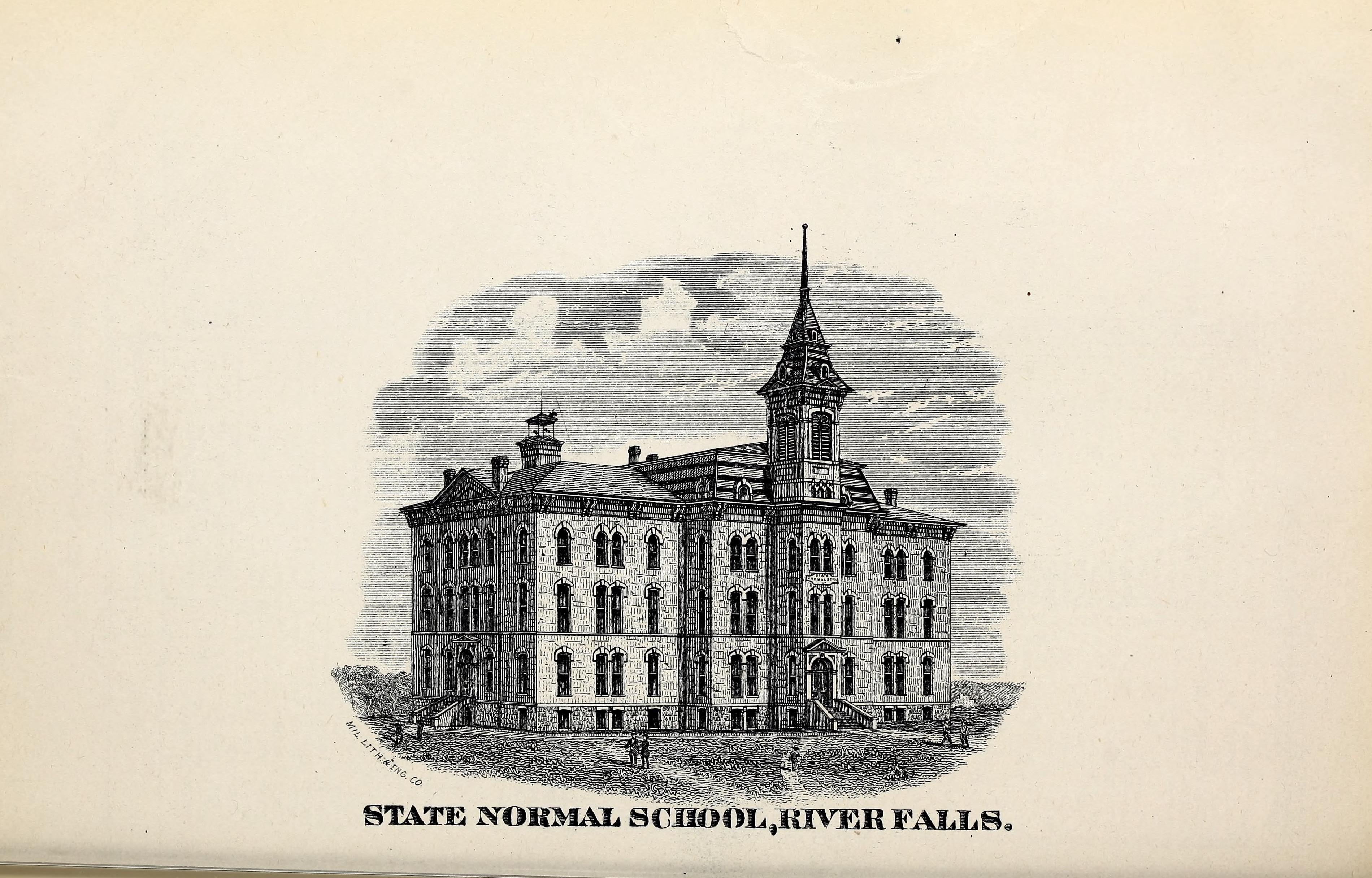 Title: The Wisconsin blue book Year: 1893 (1890s) Authors: Wisconsin. Office of the Secretary of State. Legislative manual of the State of Wisconsin Wisconsin. Bureau of Labor and Industrial Statistics. Blue book of the State of Wisconsin Industrial Commission of Wisconsin Wisconsin. State Printing Board Wisconsin. Legislature. Legislative Reference Library Wisconsin. Legislature. Legislative Reference Bureau Wisconsin. Blue book of the State of Wisconsin Subjects:State Normal School, River Falls, Wisconsin (1893) Publisher: Madison Text Appearing Before Image: play, Grant Evansville, Rock York, Dane Stoughton, Dane Darien, Walworth.. Utica, Dane Wiota La Fayette Mt. Vernon. Dane Breckinridge, Bad Axe Ashford, Fond du Lac Grafton, Washington Port Washington, Washington. Ft. Atkinson, Jefferson ToiikUi, Monroe Greenfield, Milwaukee . ... Waupun, Dodge Boardman, St. Croix Manitowoc, Manitowoc Wyoming, Iowa Racine, Racine Cambria, Columbia Sessions. 1869,70. 1882,83. 1869. 1850. 1885. 1857. 1879, b. 1873. 1867,77,78, b.1863,b. 1885. 1878,79. 1877. 1858. 1885. 1855. 1869, b. 1889. 1860. 1887,89. 1866,70. 1863,75. 1891. 1854. 1856. 1873,75, b.1881.1882.1864,71.1875.1854.1850,51.1857, b.1872.1874.1848.1860.1862.1891.1873.1881.1867.183..1861, 64.1865.1869, 70.1861.1889.1851, 53.1851.1860.1874.1857, b.1885.1869.1878. 1874, 75, 76, 77. 1862. 1856. U52. 1849, 50. 1849. 1867. 1879. 1870. 1883. 1877. 1854, b. 1878, b. 1806, 67, b. 1 Scat successfully contested by David Scott, Waupaca. 2 Seat successfully contested by Milo Cowles.b See lint «f Senators. Text Appearing After Image: '